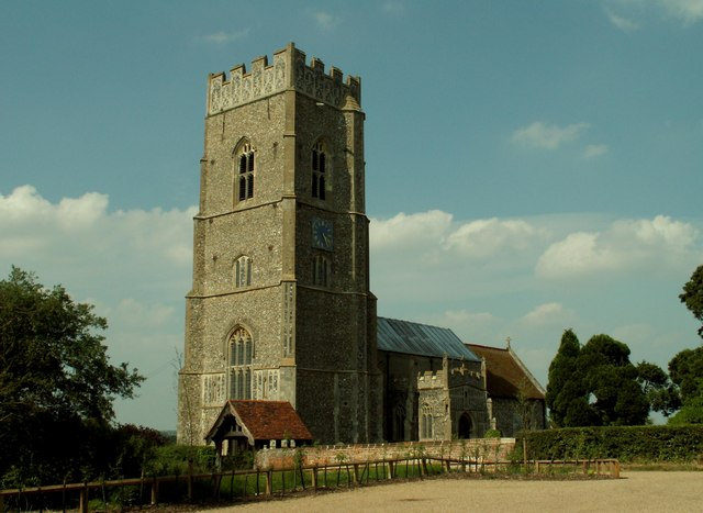 St. Mary's church, Kersey, Suffolk. This church stands at the southern end of Kersey's main street. It is of the decorated period and has many interesting features inside. Kersey is one of the prettiest villages in England and the view from the church is wonderful.